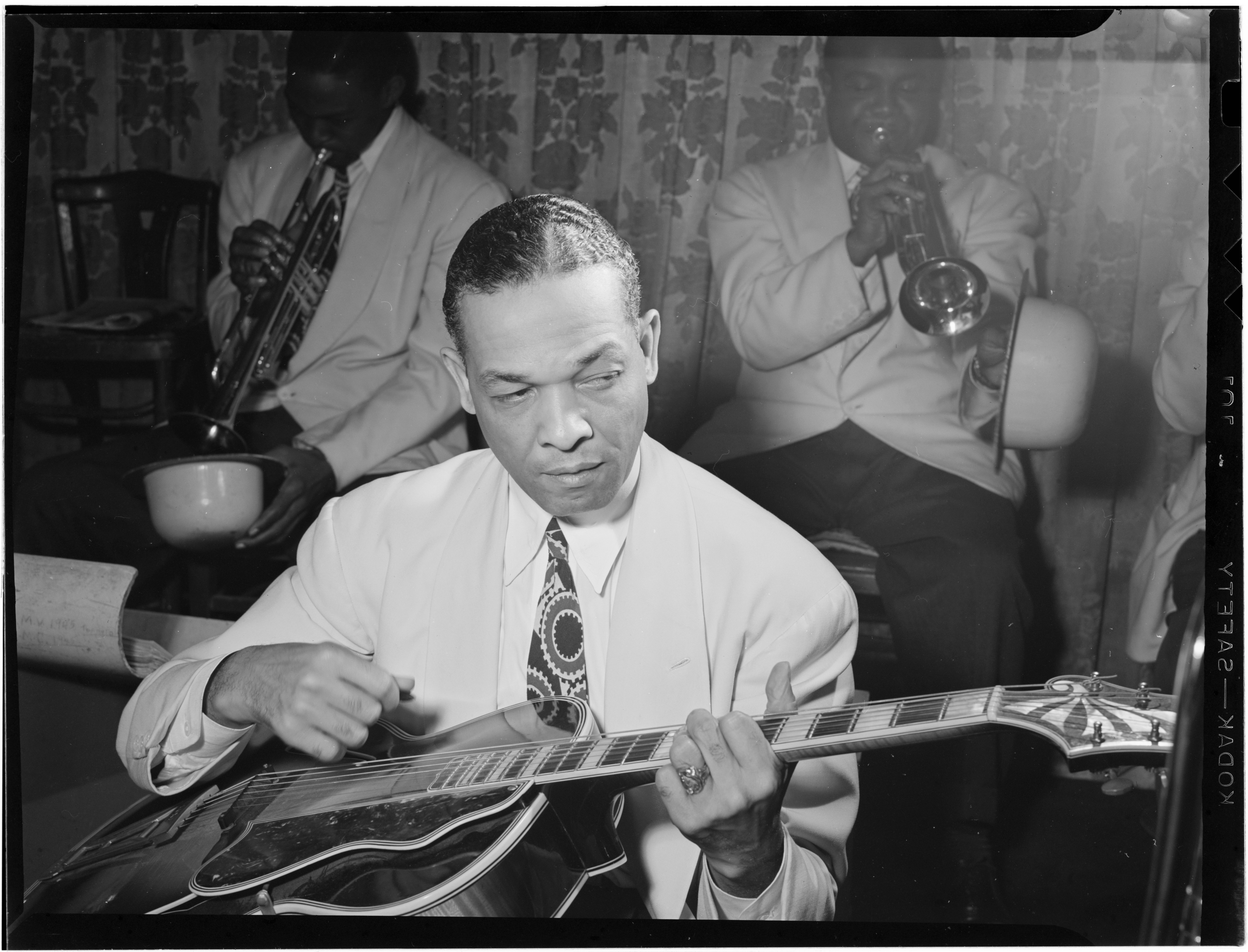 Portrait of Fred Guy playing guitar at the Aquarium, New York, N.Y., ca. Nov. 1946.